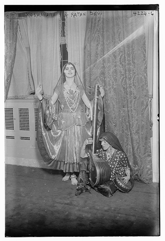 Roshanara, and Alice Coomara as Ratan Devi on March 17, 1917 in Manhattan